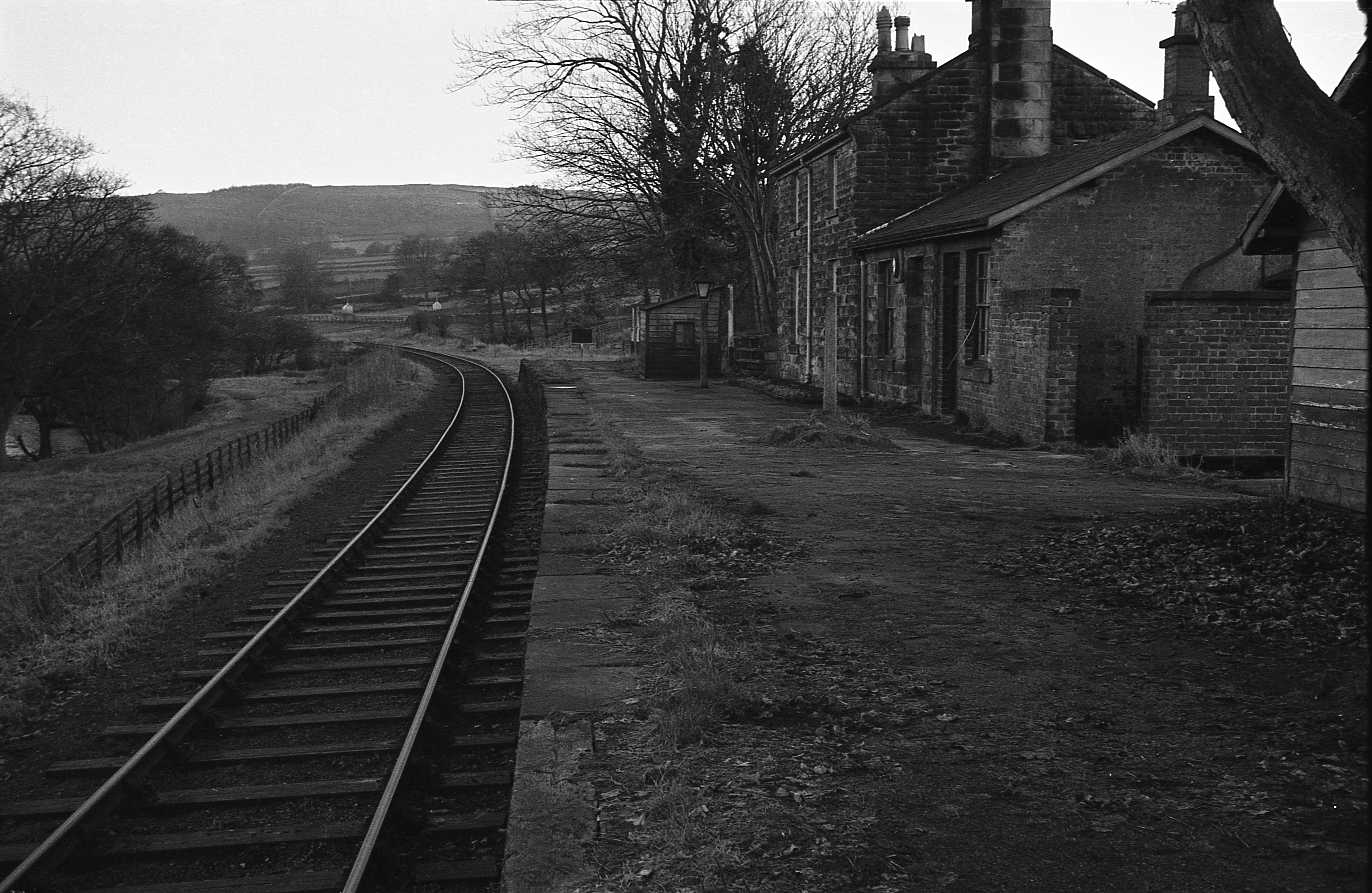 View of the railway station at Darley, Yorkshire, UK, looking towards Birstwith. The River Nidd runs alongside the railway beyond the bushes to the left.